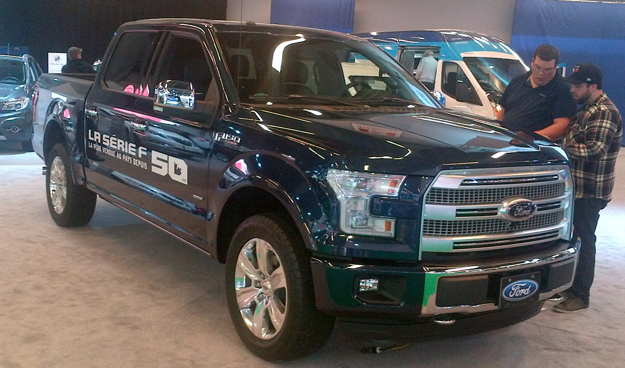 2016 Ford F-150 photographed in Montreal, Quebec, Canada at the Salon International de l’auto de Montréal 2016.